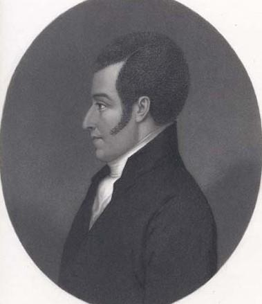 Artistic portrait of Daniel Coker, a founder of the African Methodist Episcopal church. First African American missionary to Sierra Leone.